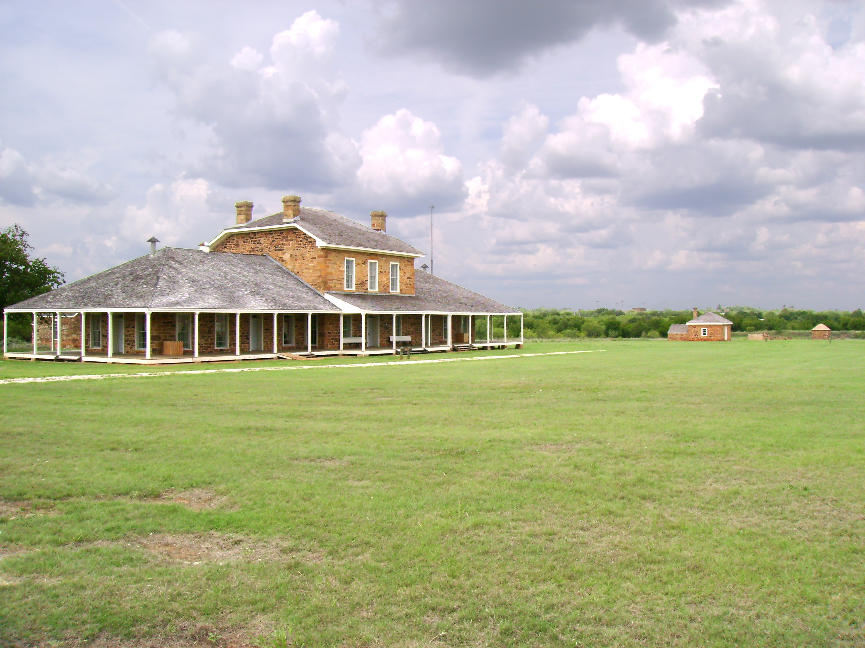 Parade ground and buildings at Fort Richardson, Jacksboro, TX; buildings shown, from left to right, are the post hospital, bakery, guardhouse ruins, and magazine